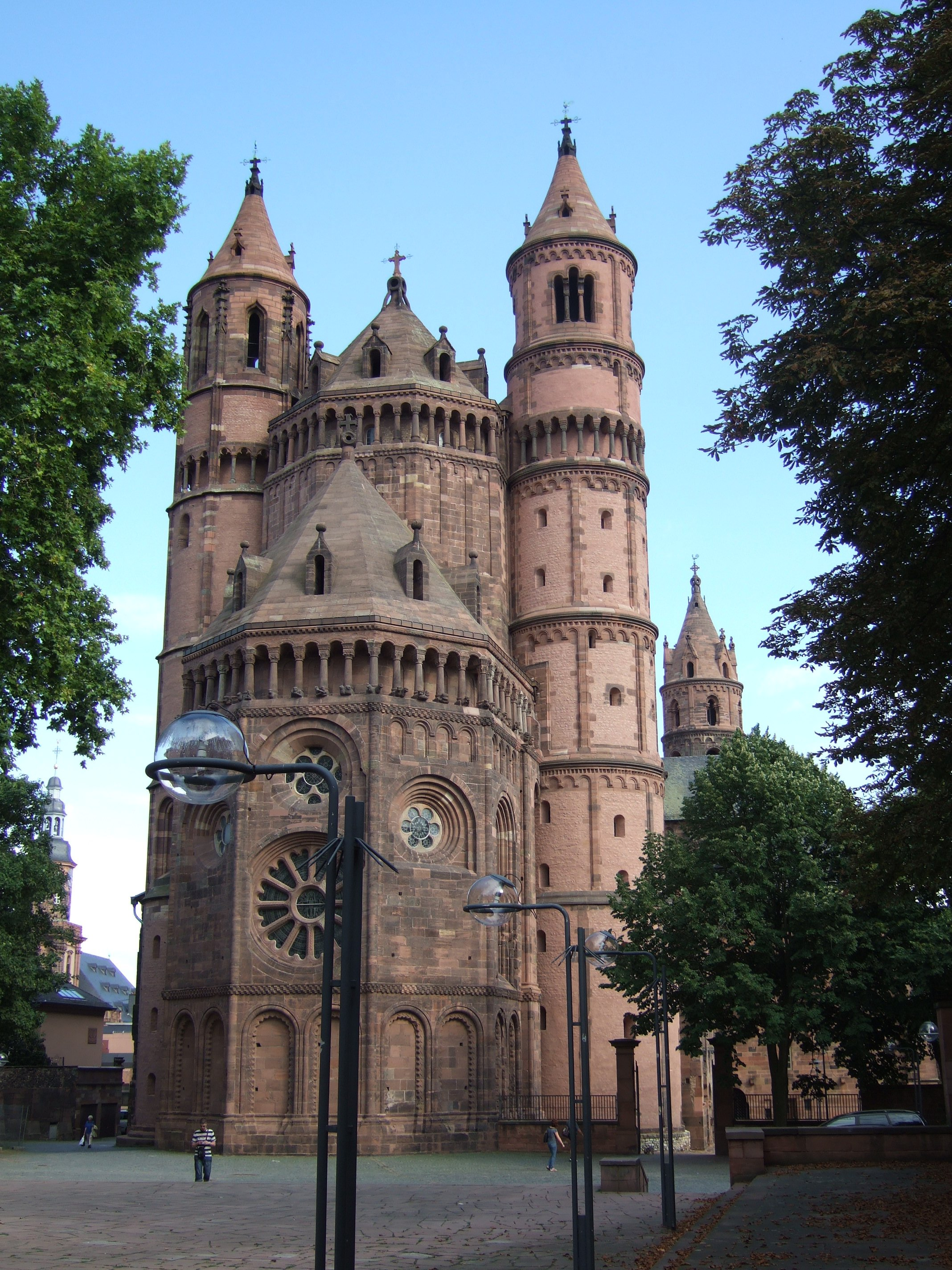 View of Worms'cathedral from the sector of apse